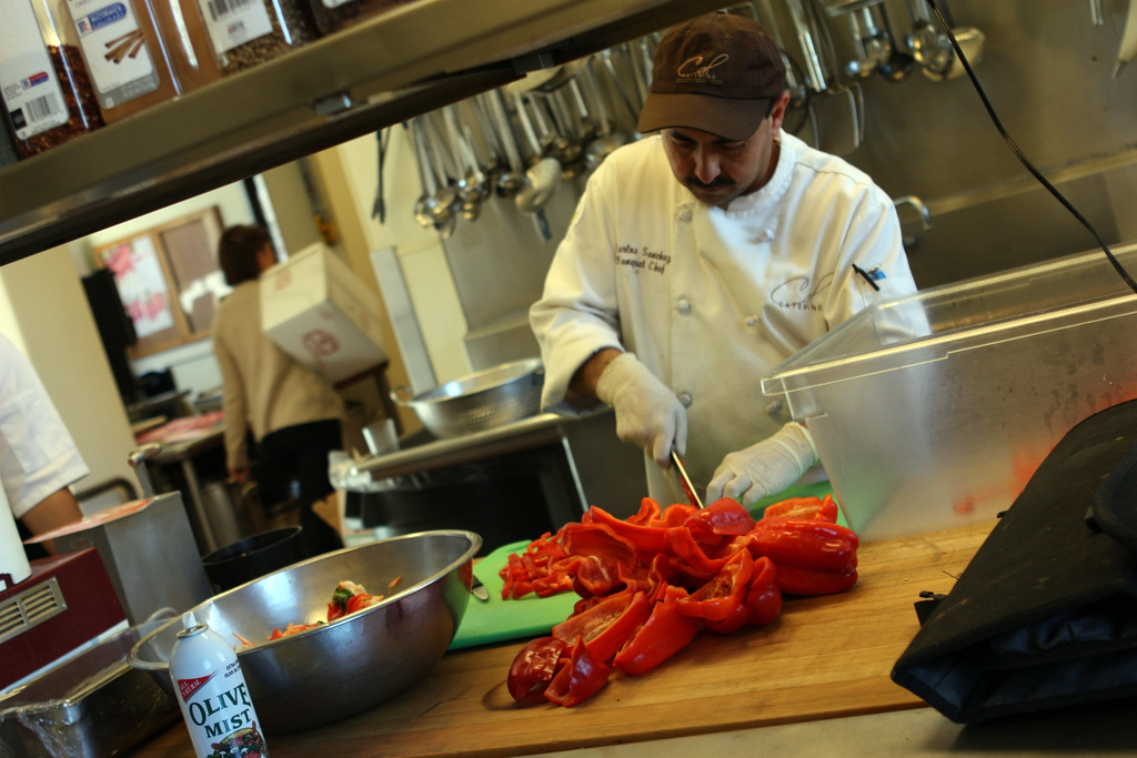 Maximizing money saved also comes with solid knife skills. Another creative way kitchens can reduce waste. UC Berkeley now wastes 1,000 pounds less per week, starting with source reduction. Elimination of trays in the dining halls is also cutting back on food waste. More about the Food Recovery Challenge Reduce waste at home!